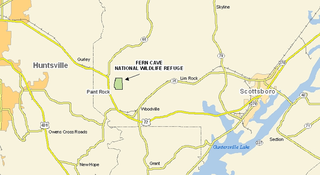 Map of Fern Cave National Wildlife Refuge